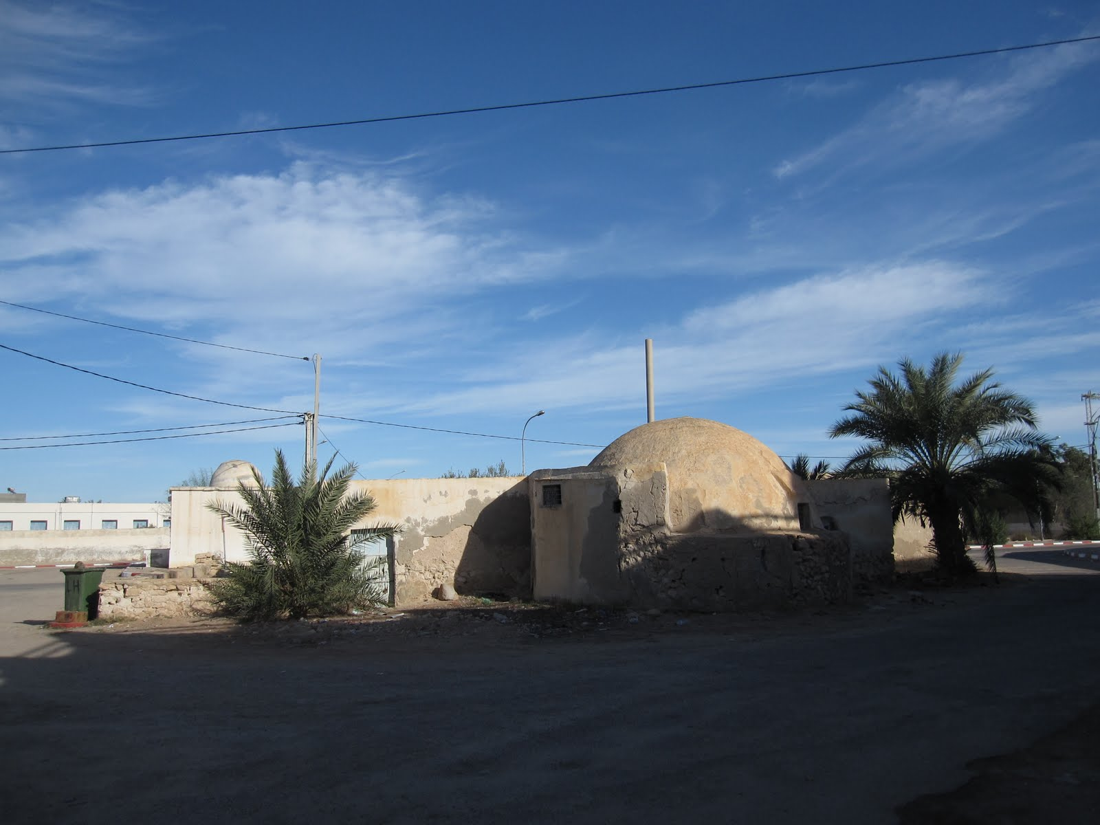 Port Ajim on Jerba, abandoned house...and the iconic Mos Eisley Cantina (Star Wars)